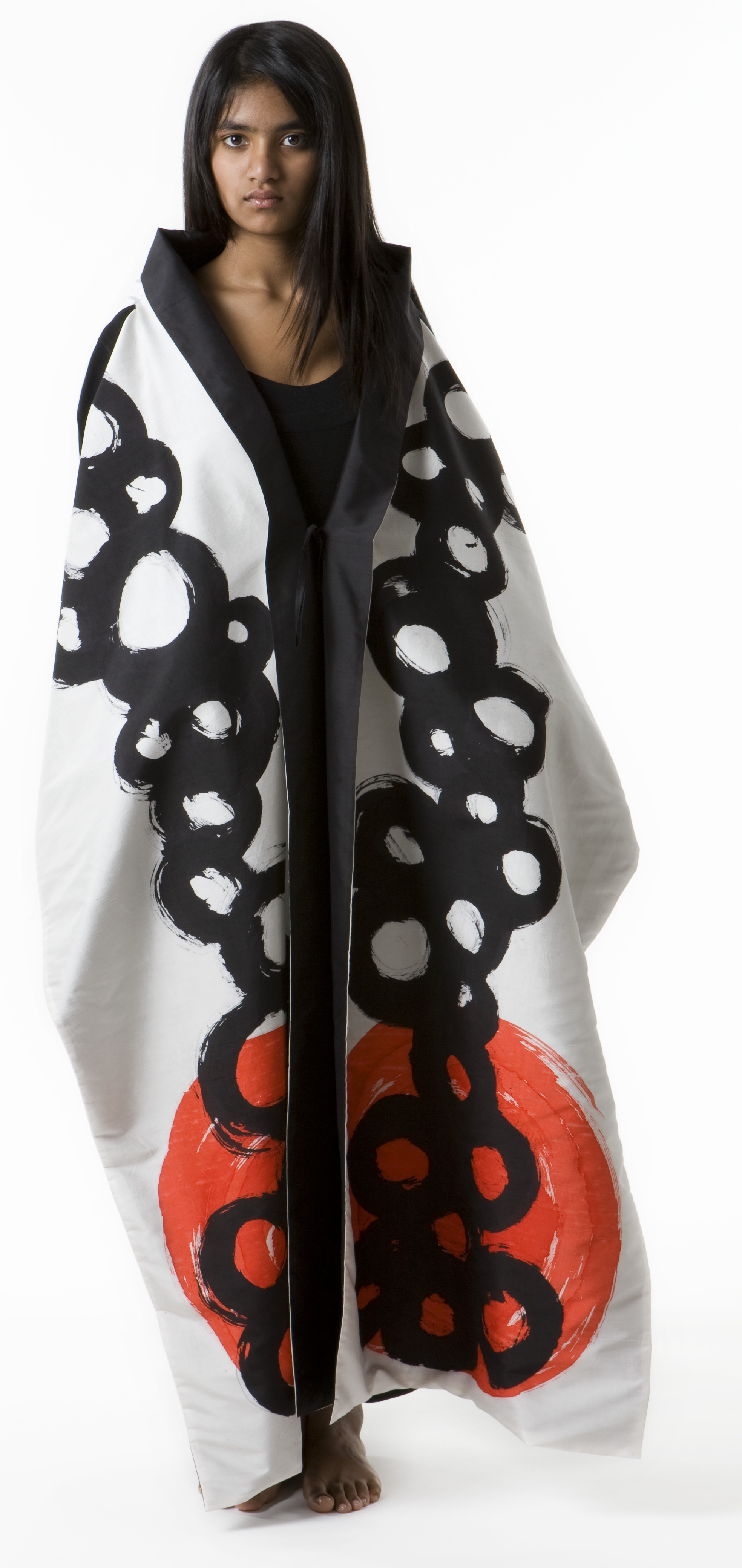 One of Kima's hand painted shawls, part of the "Geometry" collection, which is based in the RECTANGLE as a basic form. The pattern emerges from this base, depending on how the items are fold and sown.